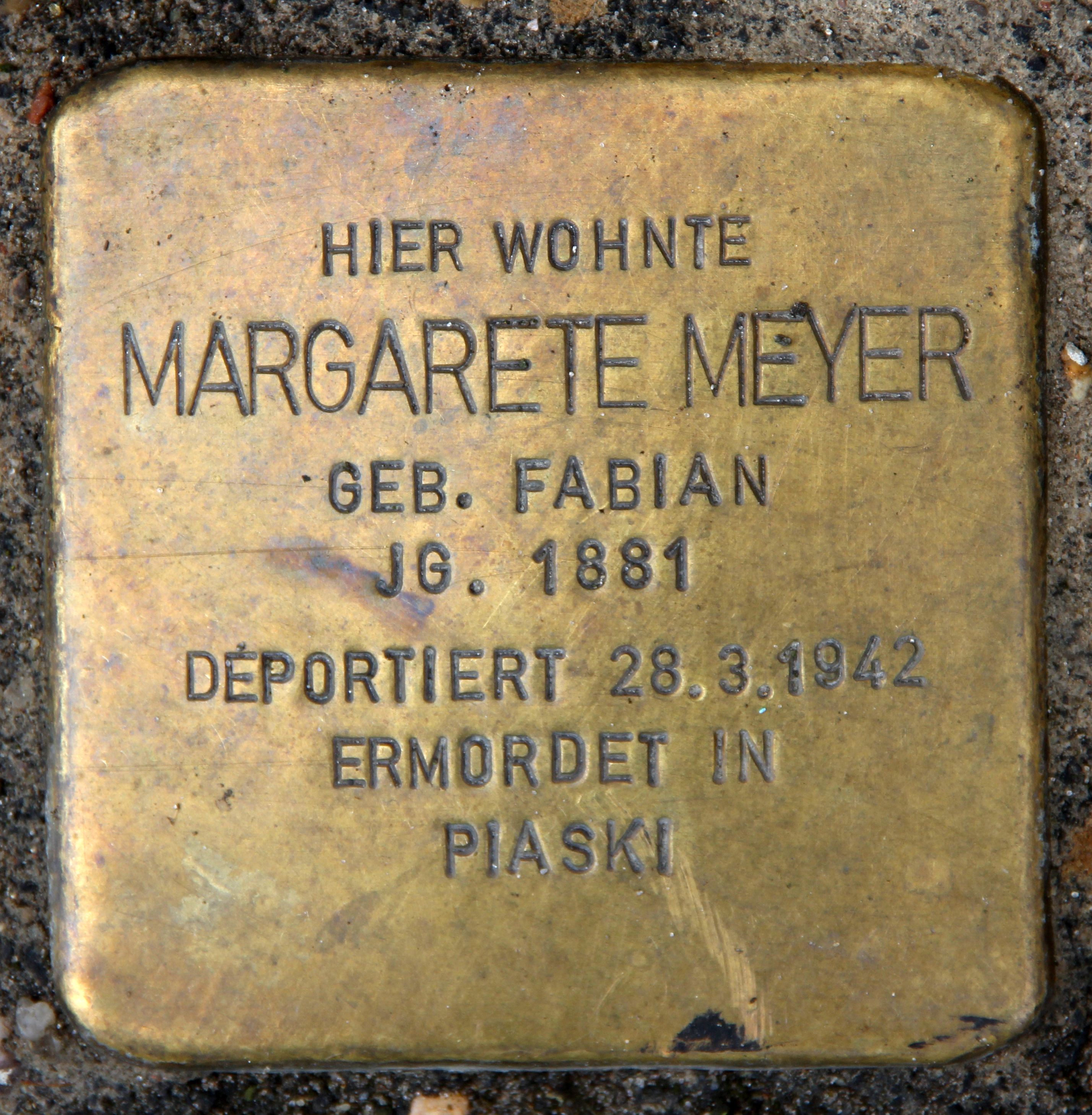 "Stolperstein" (stumbling block), Margarete Meyer, Yorckstraße 60, Berlin-Kreuzberg, Germany